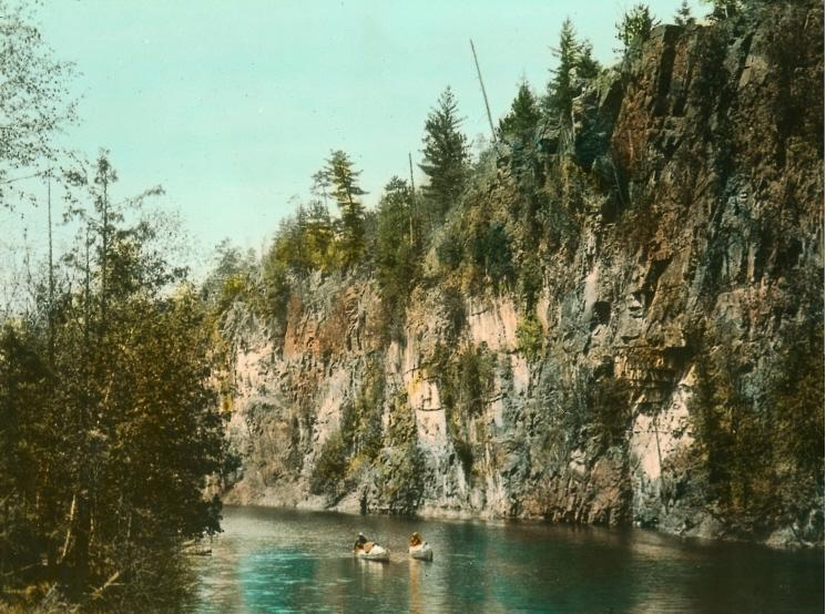 Canoeing on the Pettawawa River in Algonquin Park, Ontario, Canada.